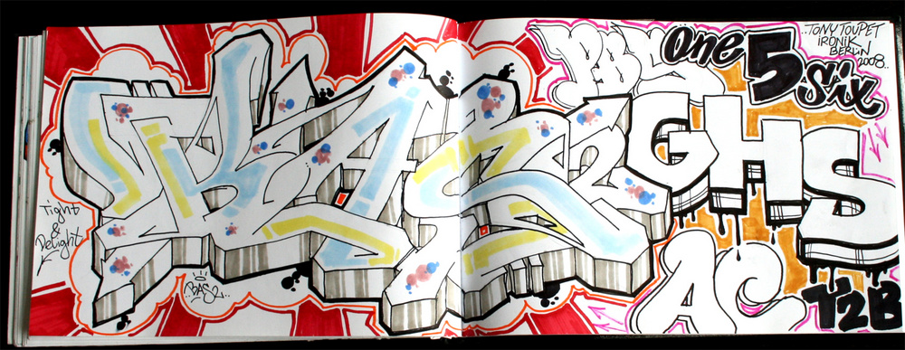 blackbook sketch by BAS2 GHS 156